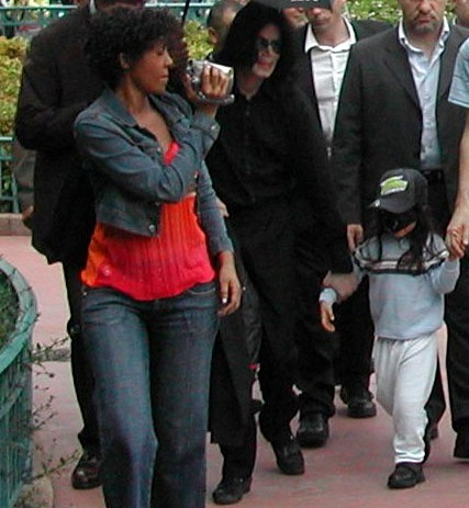 Jackson with his children in Disneyland Paris, 2006.